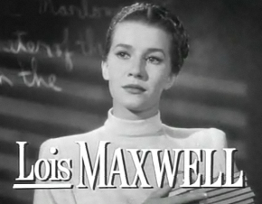 Cropped screenshot of Lois Maxwell from the trailer for the film That Hagen Girl